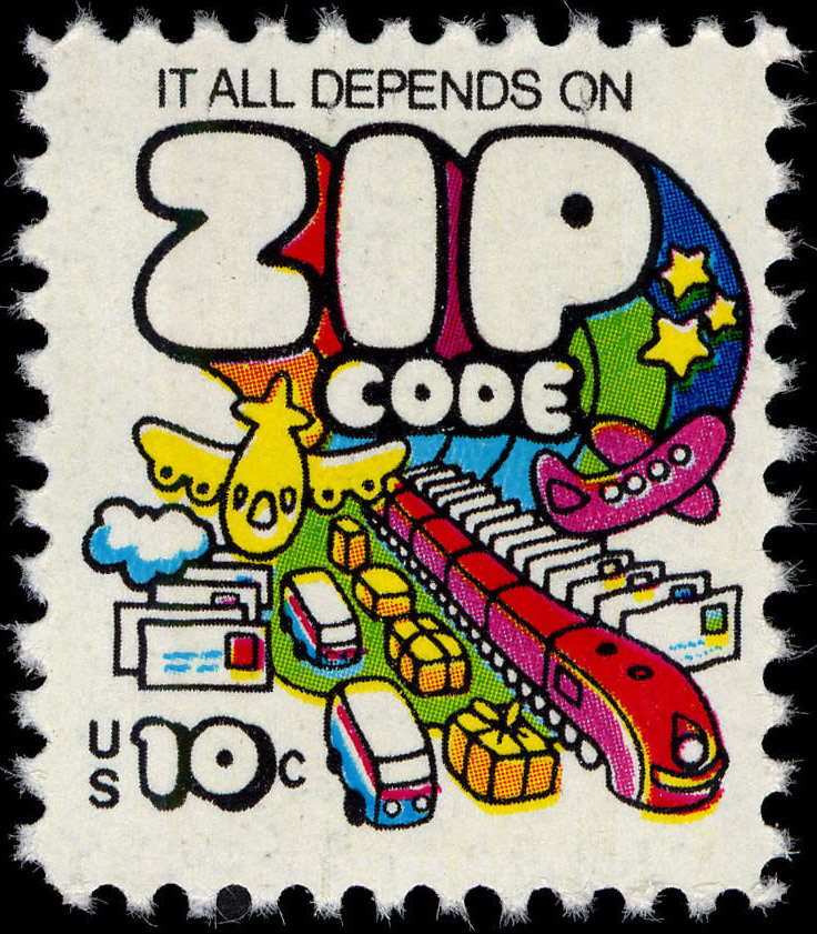 USA 10-cent postage stamp, 1973: "It all depends on ZIP code".